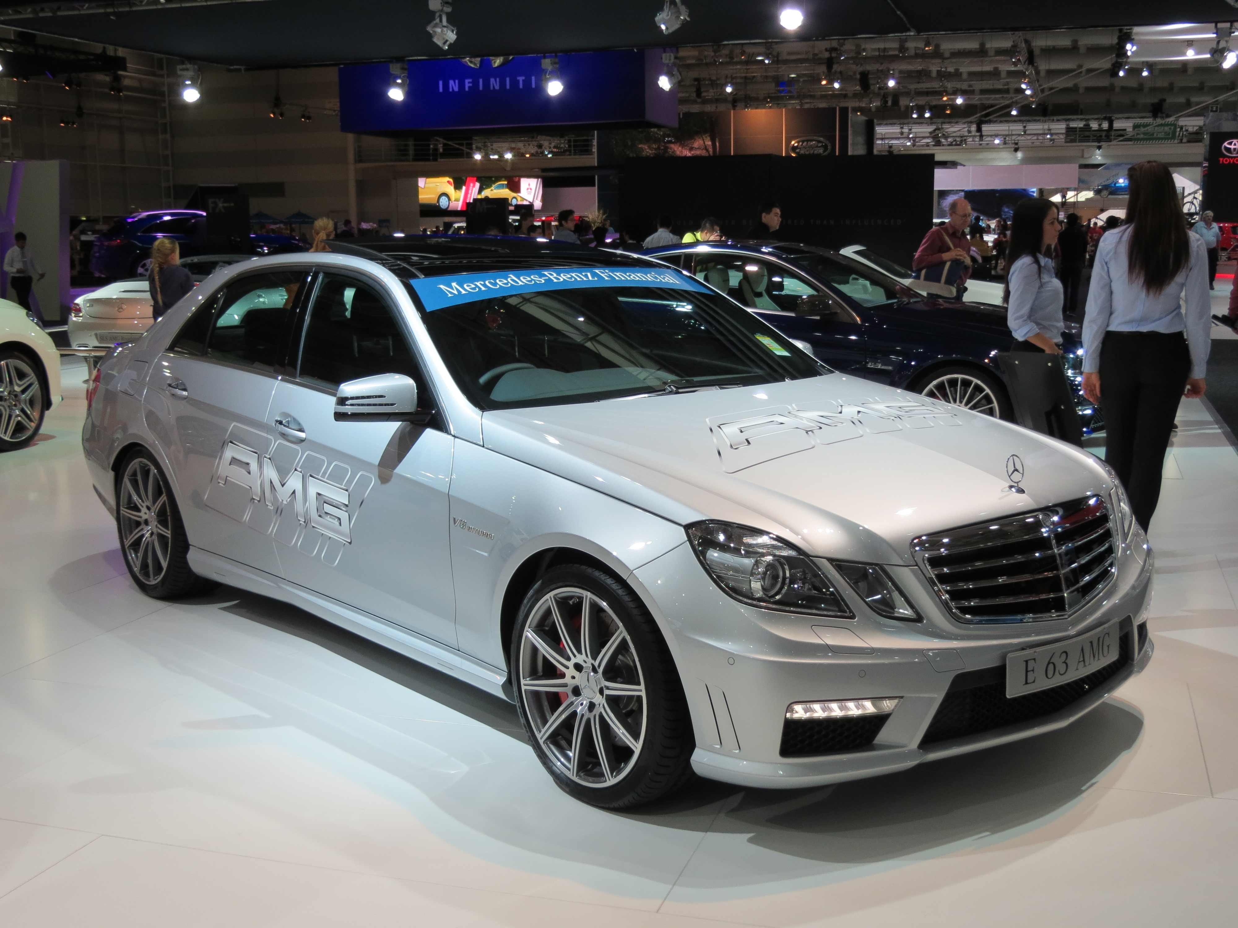 2012 Mercedes-Benz E 63 AMG (W 212 MY12) sedan. Photographed at the 2012 Australian International Motor Show, Sydney, New South Wales, Australia.